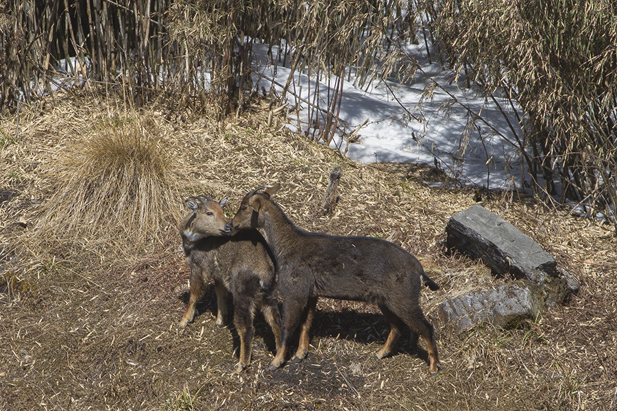 The species Himalayan Brown Goral both Male and Female had been photographed durng the wildlife photography trip of GoingWild in Pangolakha Wildlife Sanctuary in East Sikkim, India on 13.02.2016.